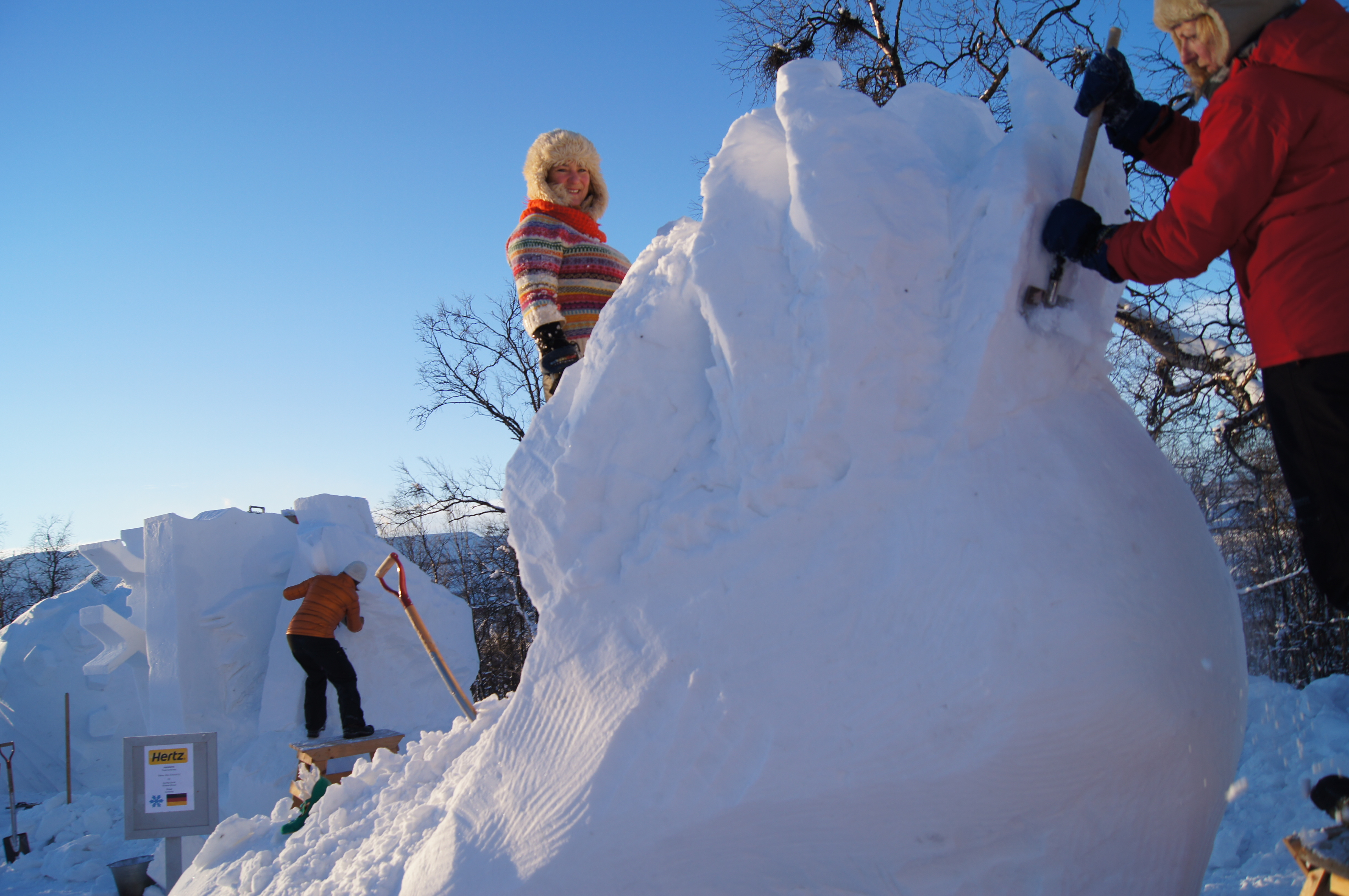 Artist at work during Kiruna Snow Festival 2010, Kiruna International Snow Sculpture Competition (2)